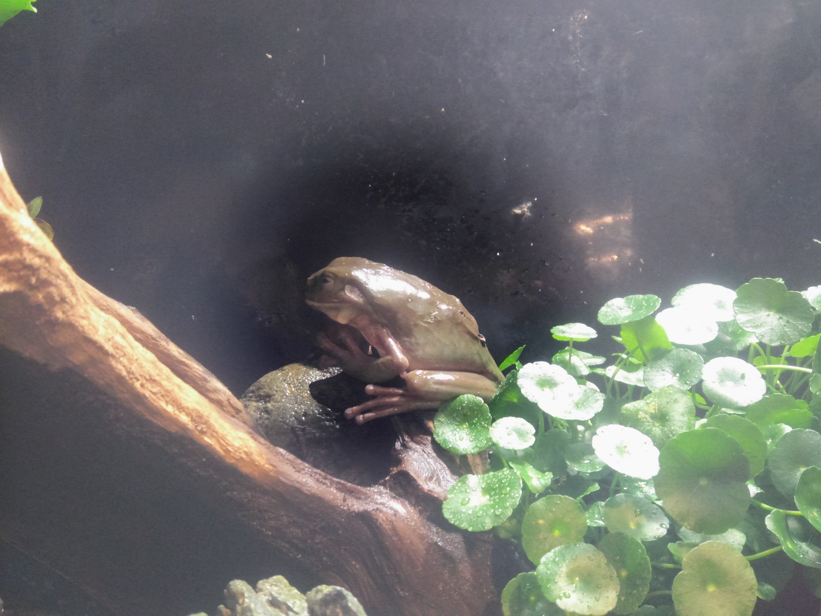 Australian green tree frog in South Korean Coex Aquarium